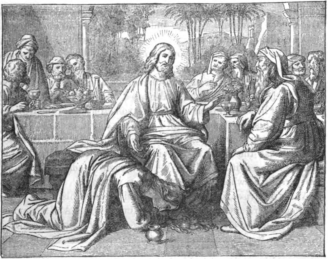 A woman anoints the feet of Jesus.